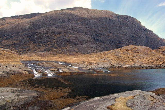 Mouth of the Scavaig River The river, less than 0.5km long, drains from Loch Coruisk to fall into the sea here in Loch na Cuilce.